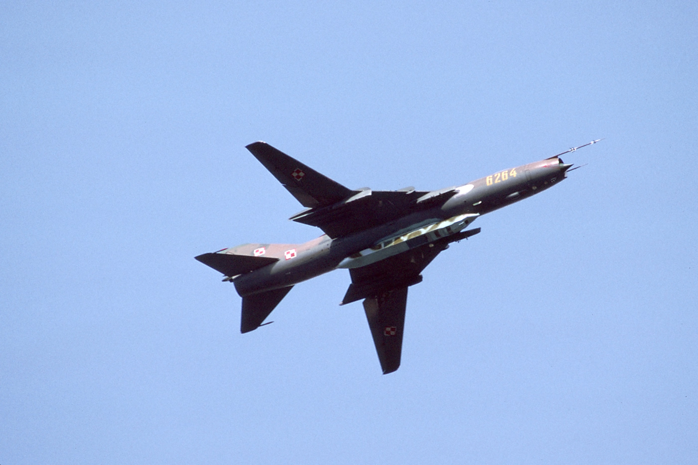 The Polish Air Force still has many Su-22 Fitters in service, but the Sukhoi-version in the photo is long gone. The Su-20 Fitter-C was the export version of the Su-17M. I took the photo during the airshow at Poznan-Lawica in August 1991. The first and last time I saw this type of Fitter. 6264 is preserved in the town of Wejherowo.